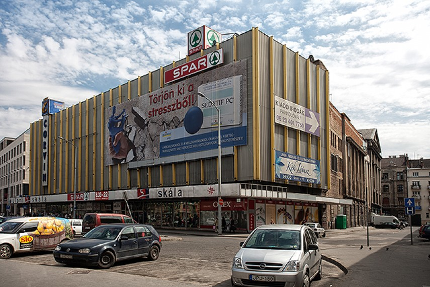 Corvin aruhaz post-1965